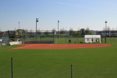 Softball-Field Augsburg